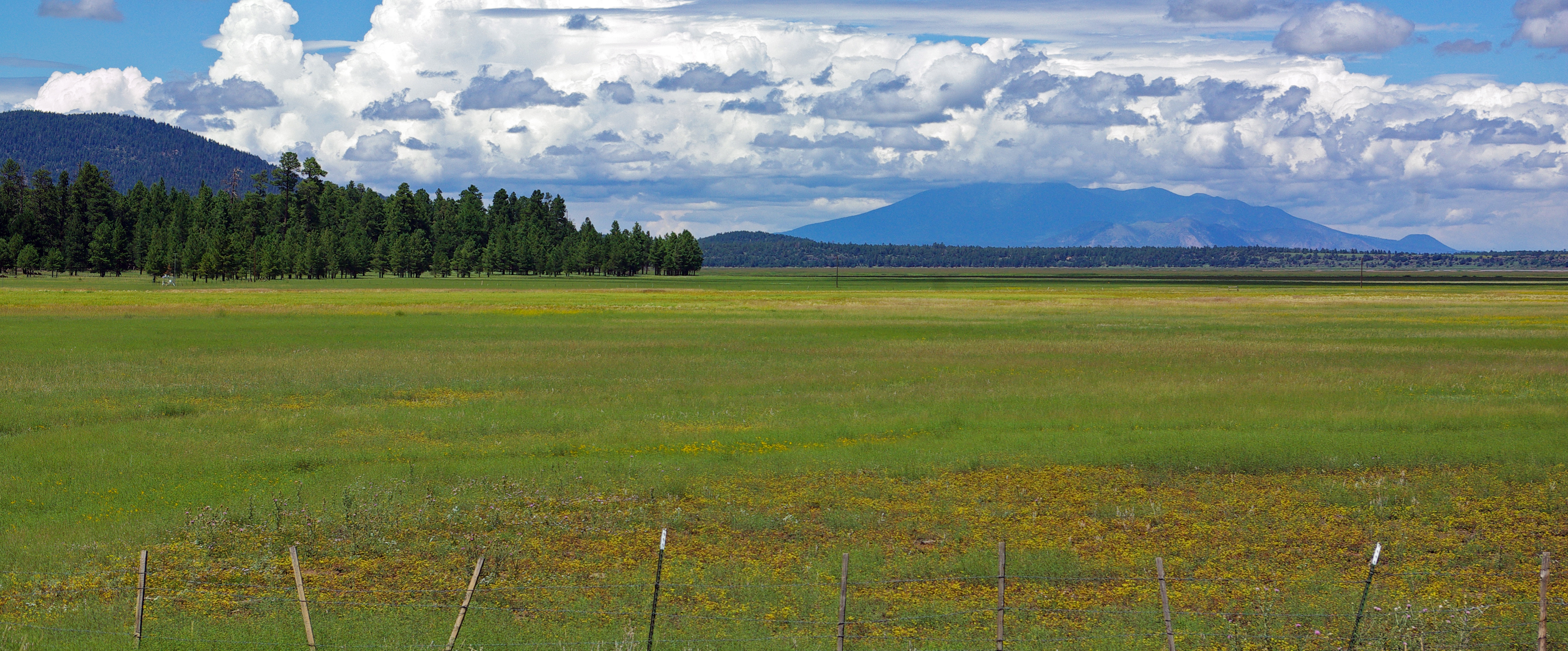 Panorama of the Peaks from across the field at Mormon Lake. Taken by Gary Garner on 8-22-10. Credit: Gary Garner